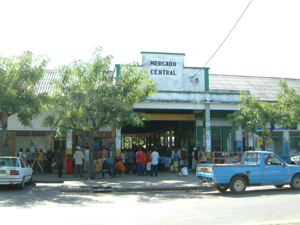 Central Market in Inhambane, Mozambique.